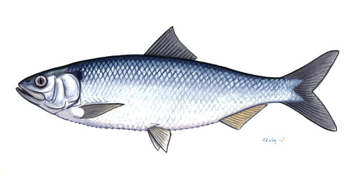 Pontic Shad (Caspialosa kessleri pontica = Alosa pontica =A. immaculata)